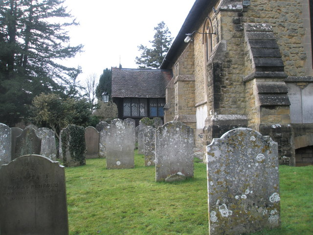 Porch at St Bartholomew's Taken on an indifferent New Year's Day afternoon.